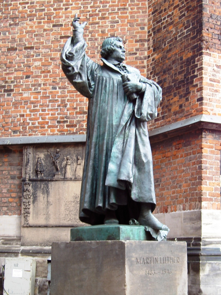 A statue of Martin Luther on the market place in Hanover